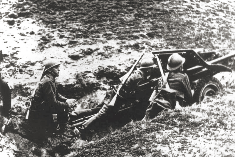 Polish_anti-tank_artillery_1939